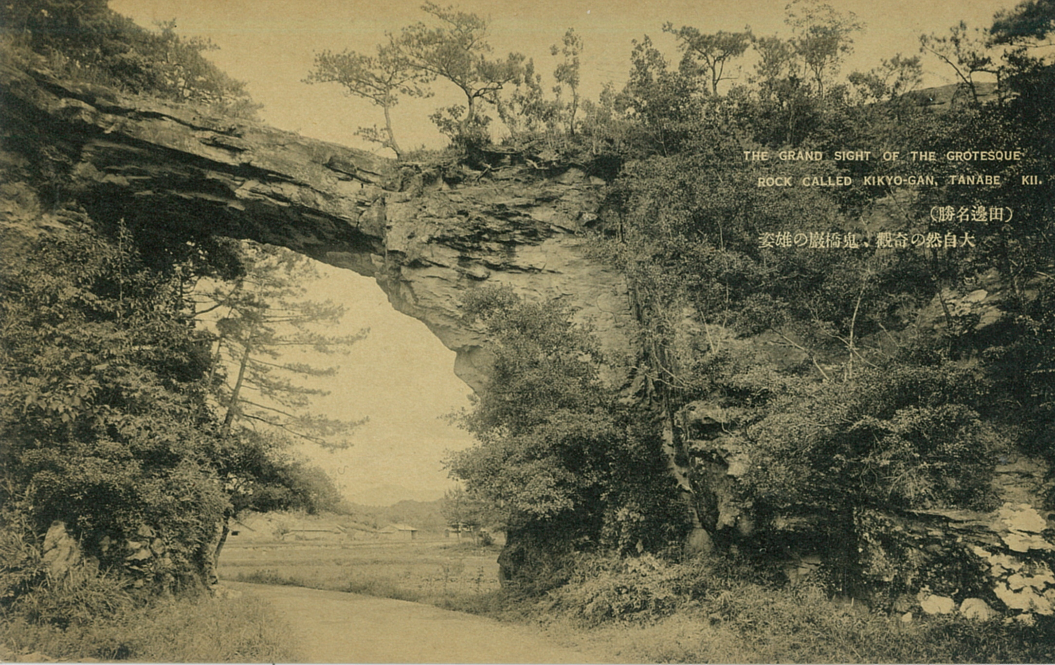 Postcard of Kikyogan, a natural rock bridge in Tanabe, Wakayama Prefecture.